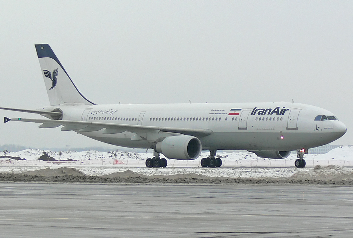 "Iran Air" A-300 EP-IBA